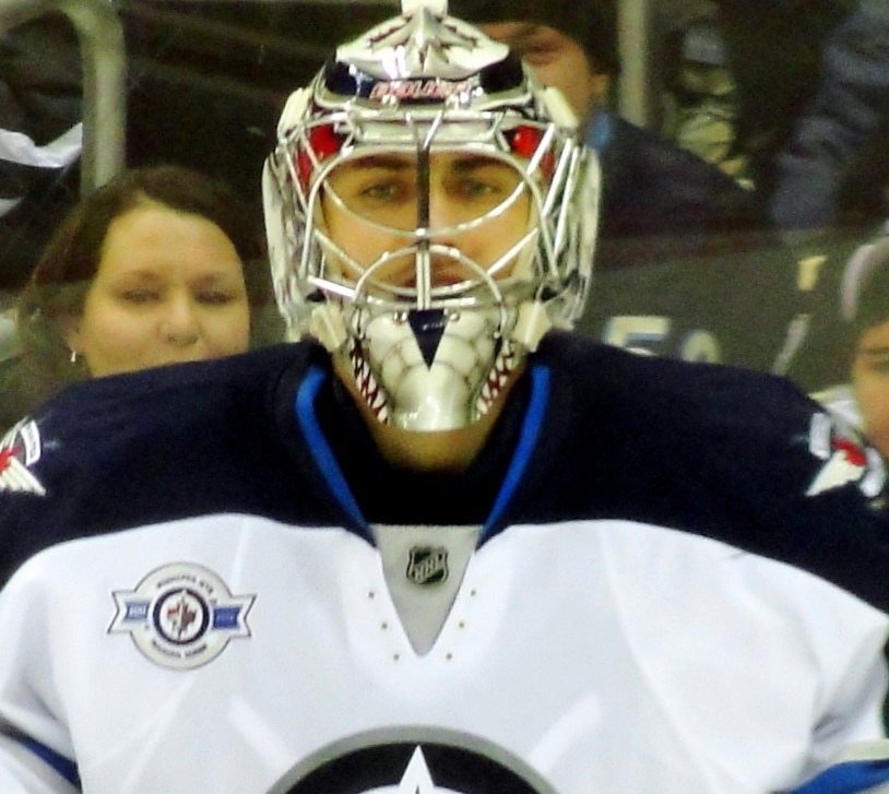 Ondřej Pavelec of the Winnepeg Jets during a game against the Pittsburgh Penguins, February 11, 2012 at Consol Energy Center in Pittsburgh, PA.